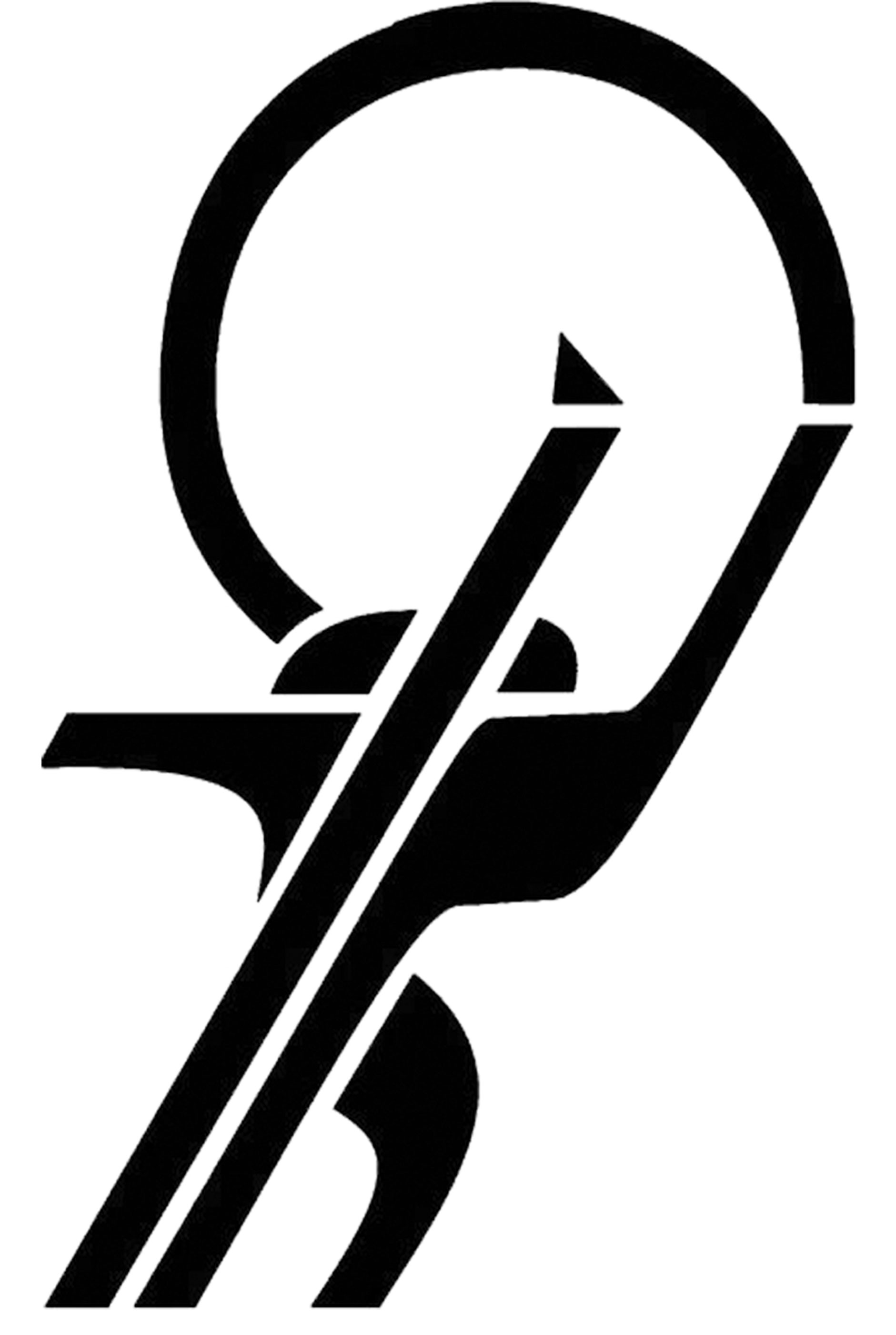 it's jam logo